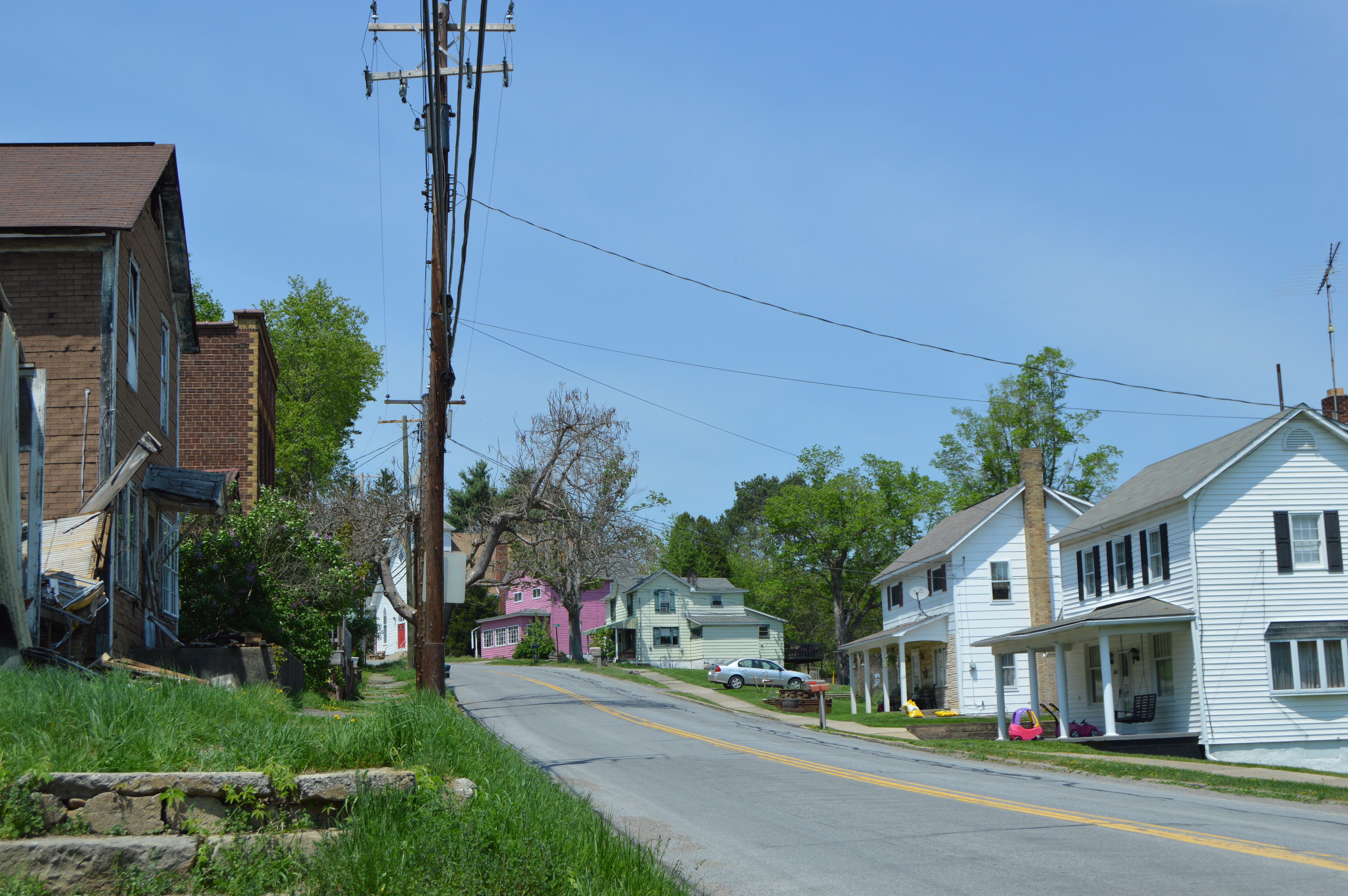 Looking north on Glenwood Avenue from the First Avenue intersection in Glen Campbell, Pennsylvania, United States.